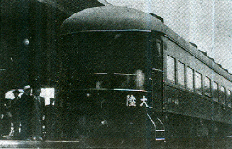 An observation car of the North China Transportation Company on the "Tairiku" express train, which ran on the Beijing, China - Xinjing (Shenyang), Manchukuo - Gyeongseong (Seoul), Korea - Busan, Korea. Taken at Gyeongseong sometime between 1938 and 1944.